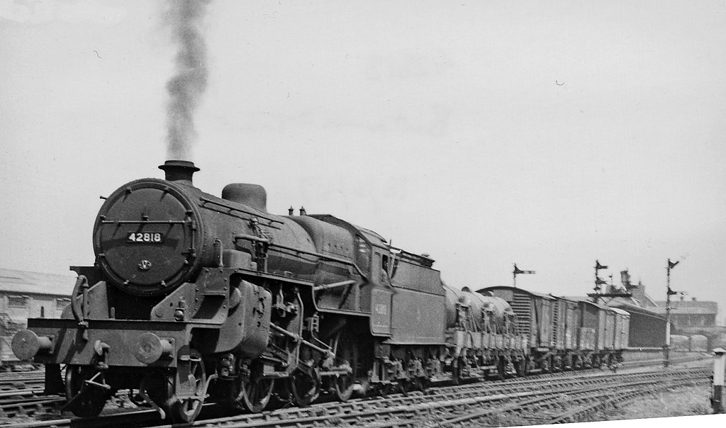 Transfer freight near Burton-on-Trent Station. View NE, towards Burton station, Derby and Nottingham; ex-Midland Bristol - Birmingham - Derby etc. main line. (For details, see SK2423 : Up 'Devonian' express leaving Burton-upon-Trent). This short goods train had not even a brake-van, although - being at Burton - it included a wagon carrying two large beer-barrels. The locomotive is unusual, being a Hughes/Fowler 5P4F 2-6-0 fitted with unconventional Reidinger poppet valve-gear, No. 42818.